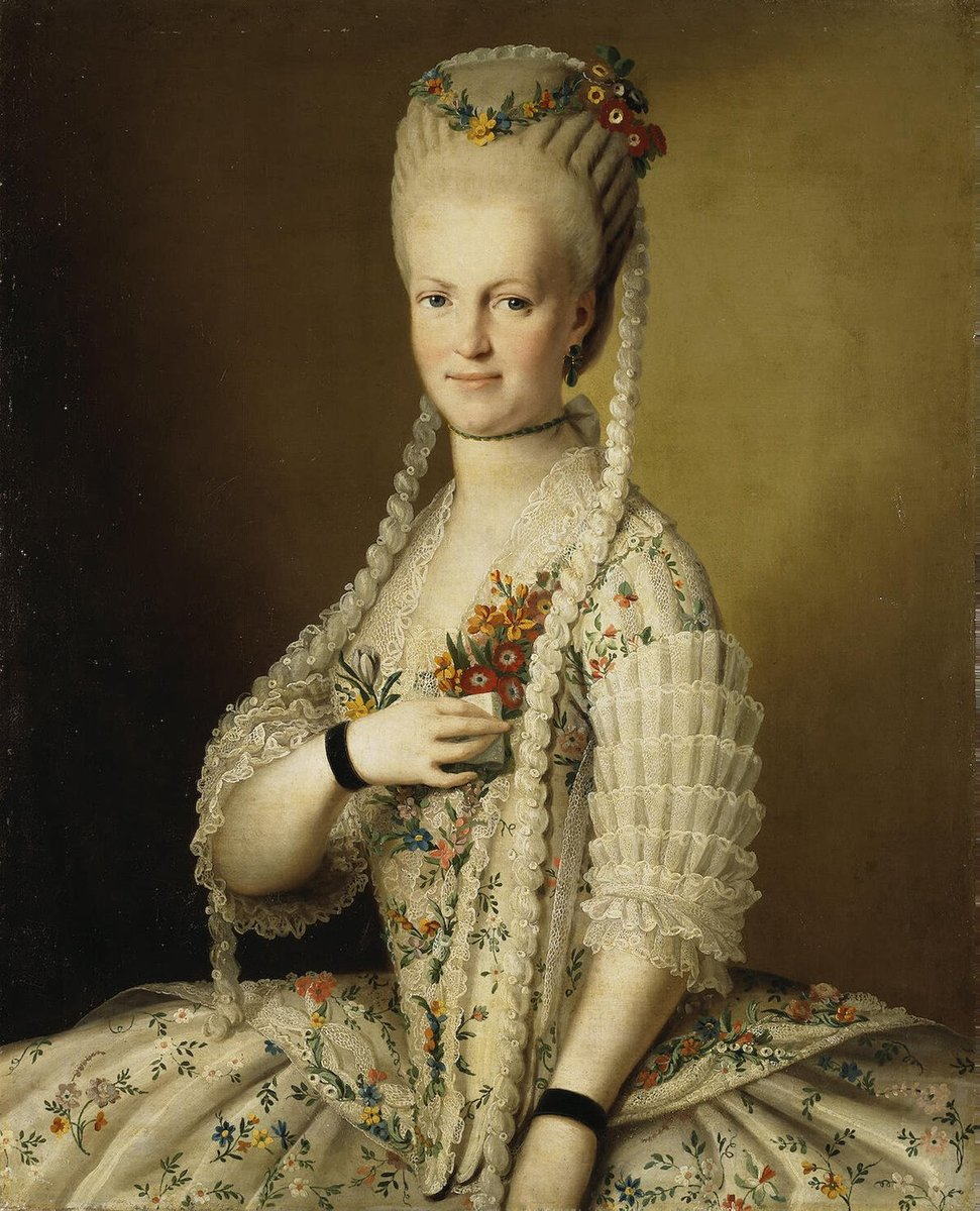 Sarah Cook, James Cook's cousin, Samuel Greig's wife